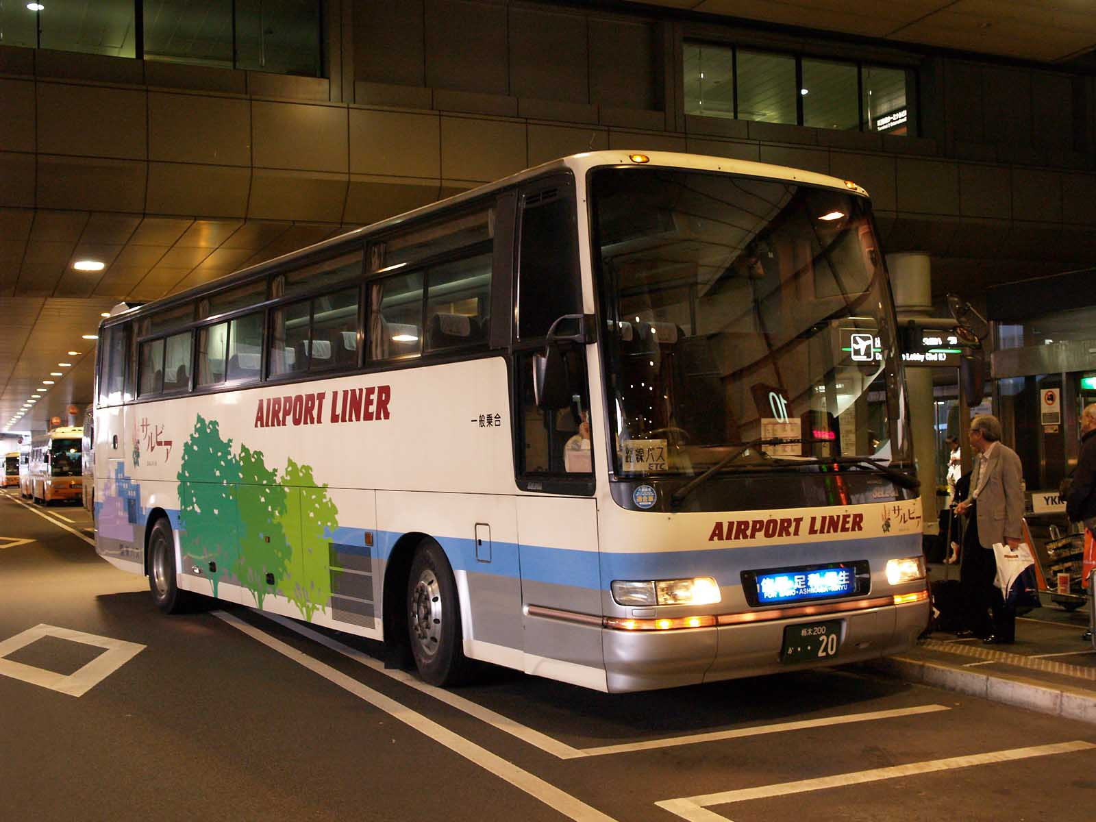 Fleet of Kanto Jidosha, for Narita Airport limousine "Salvia" bound for Ryomo area. Model: Hino Selega GD KC-RU4FSCB License plate: TGT200 KA--20 Place: Narita International Airport